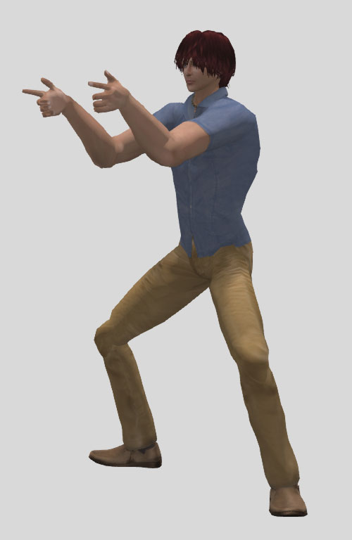 Get's - A comical gesture of Japanese comedian Dandy Sakano